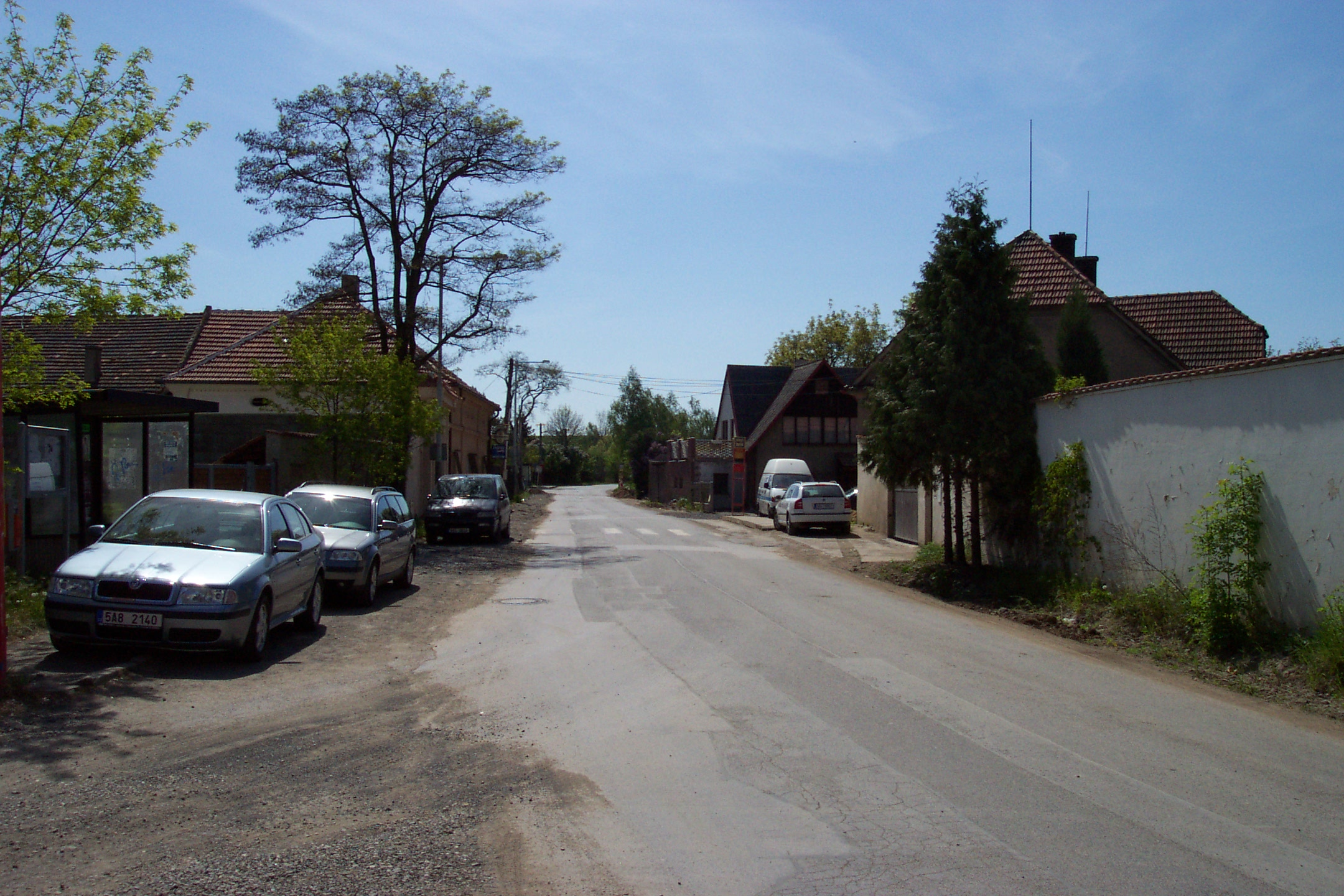 Prague, Sobín, the Hostivická street